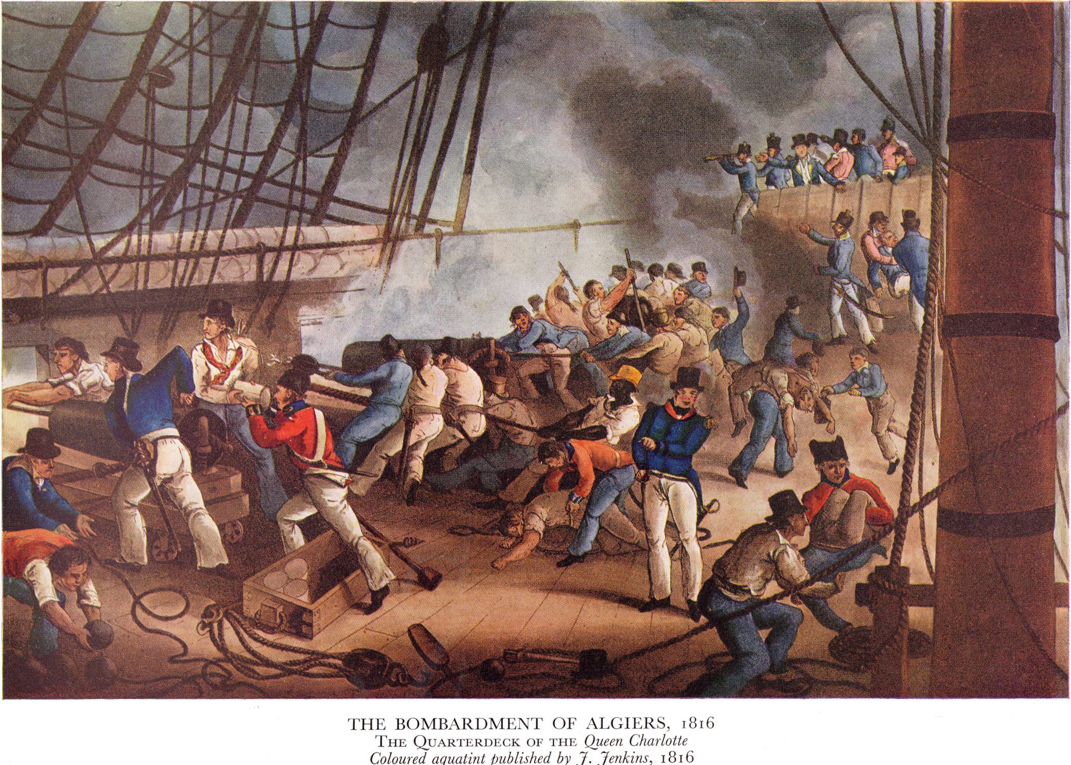 Bombardement of Algiers 1816